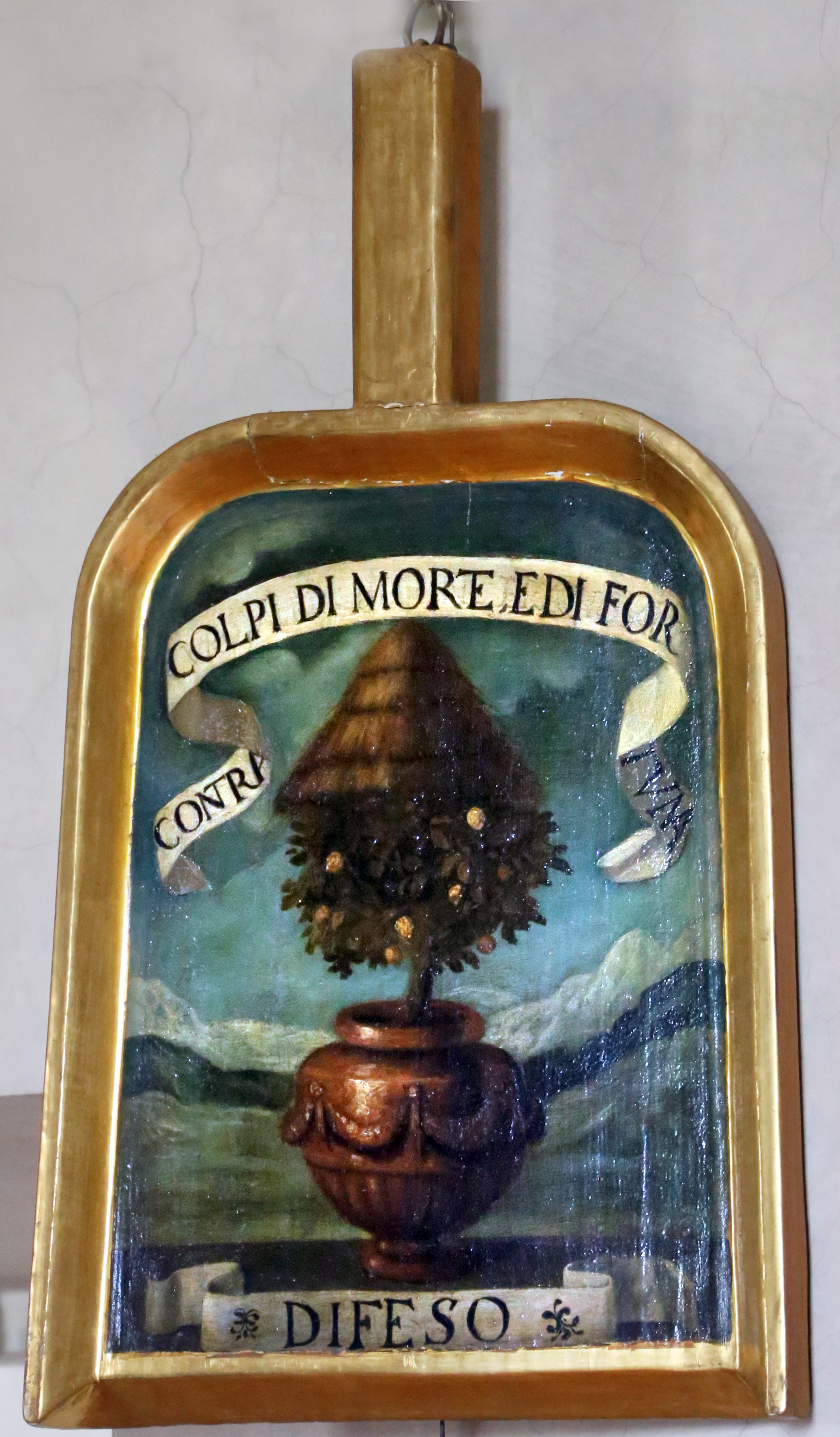 Shovels of Accademici della Crusca